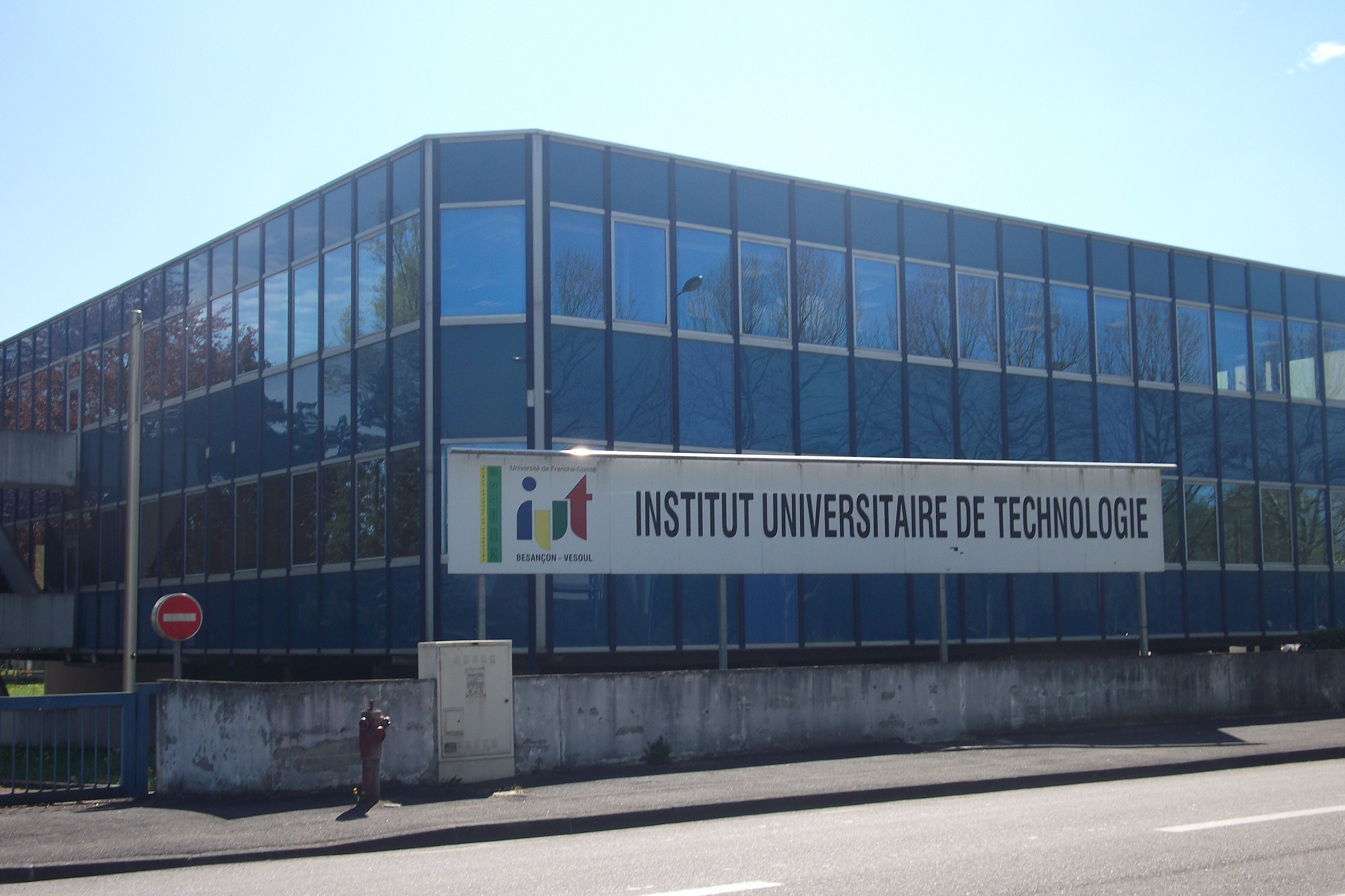 University Institute of Technology in Vesoul, France.